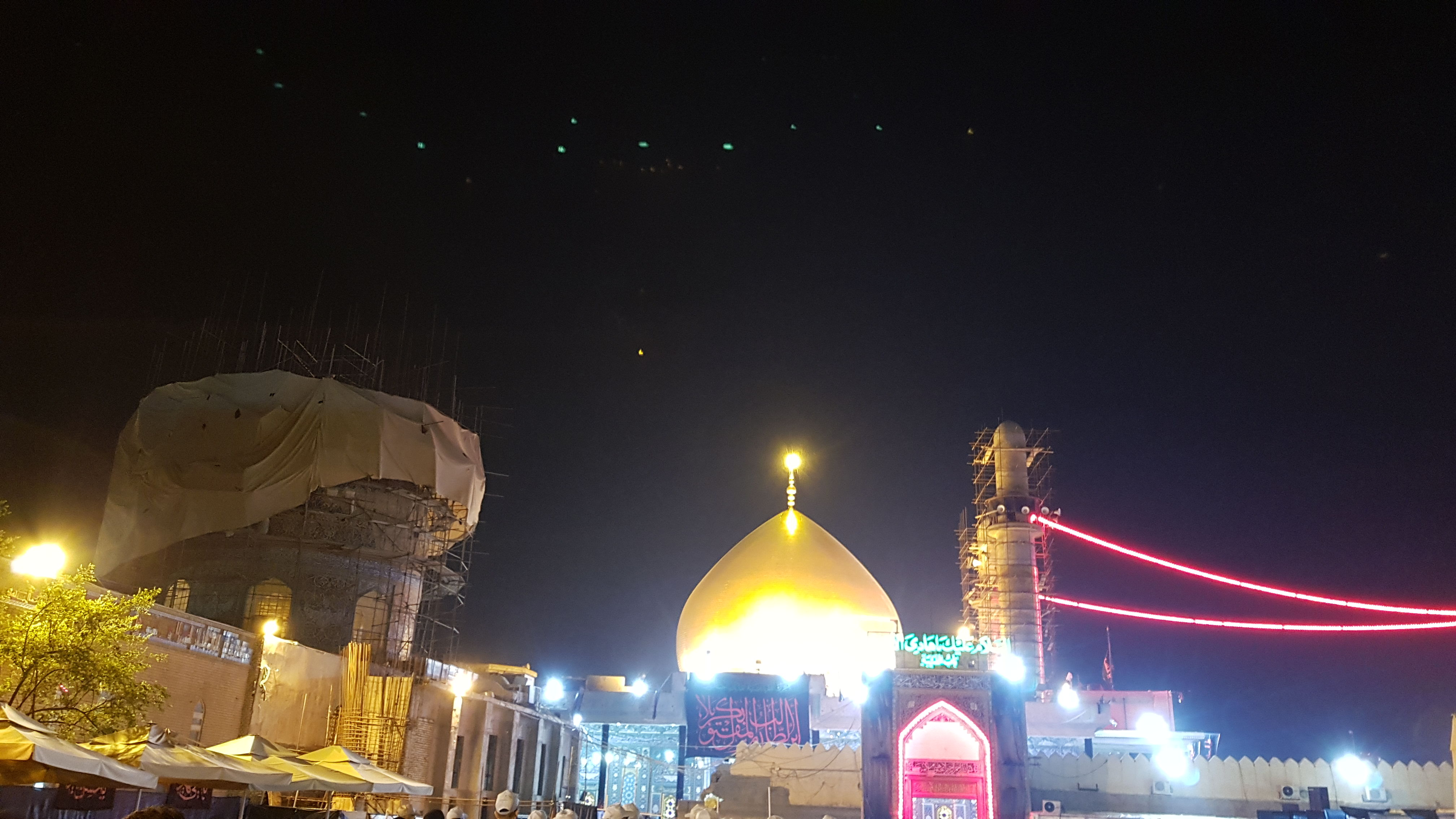 The shrine of Imam Hasan Askari and Imam Hadi, the Shiaa leaders